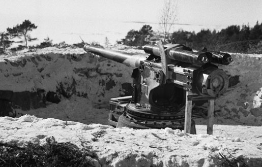 Artillery piece in Hästö-Busö in Finland March 18, 1940.